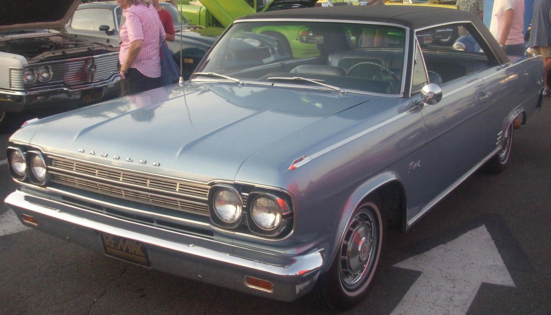 1966 Rambler Rebel by American Motors Corporation (AMC). The Rebel was top model in the Rambler Classic lineup and only available as a two-door hardtop (no B-pillar). This car is finished in "Marlin Silver" (paint code P-14A) with a black vinyl covered roof. Photographed in Montreal, Quebec, Canada at Gibeau Orange Julep.